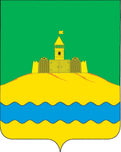 Coat of arms of Jolmskaya, Abinsk Raion, Krasnodar Krai, Russia.